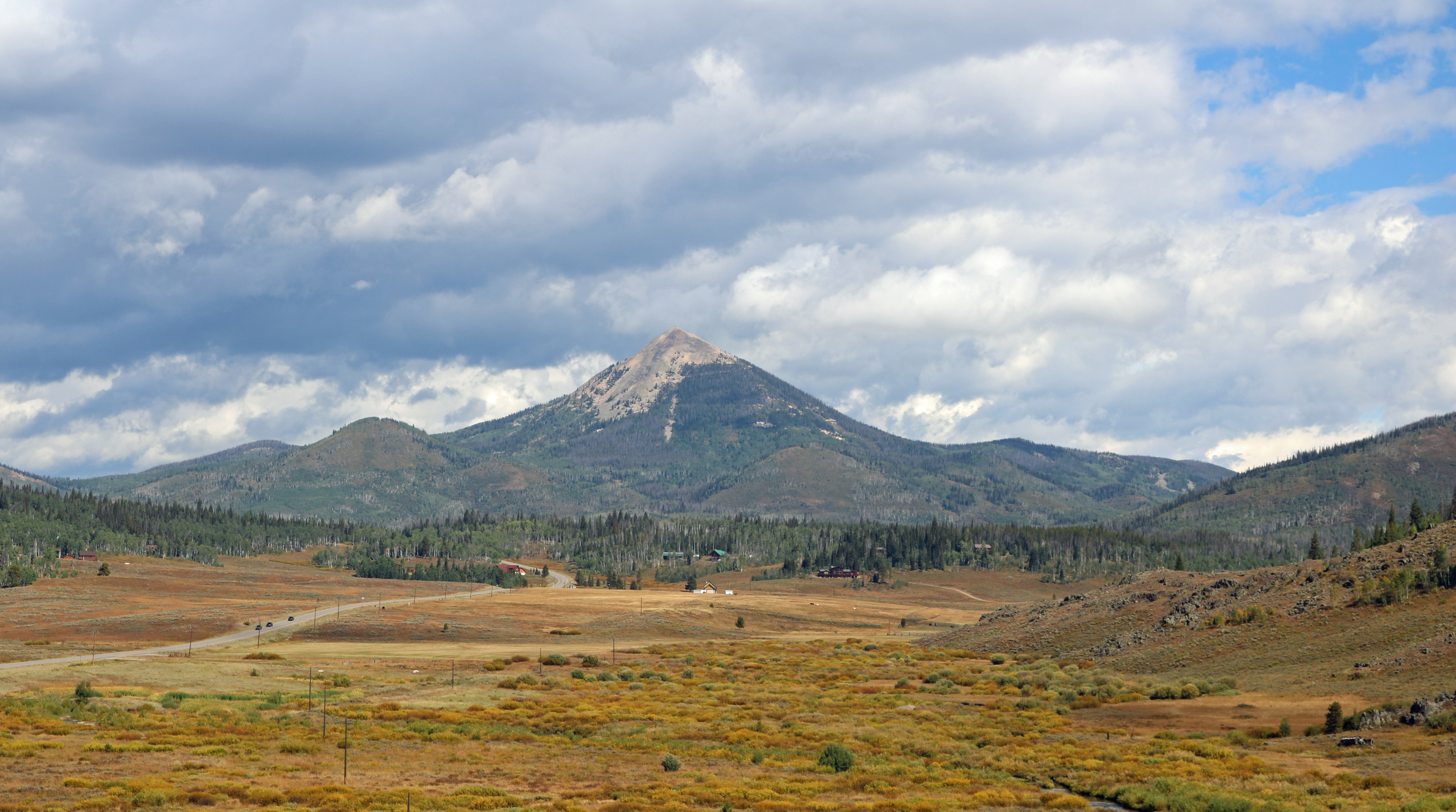 Hahns Peak in Routt County, Colorado. The road on the left side of the picture is Routt County Road 129.